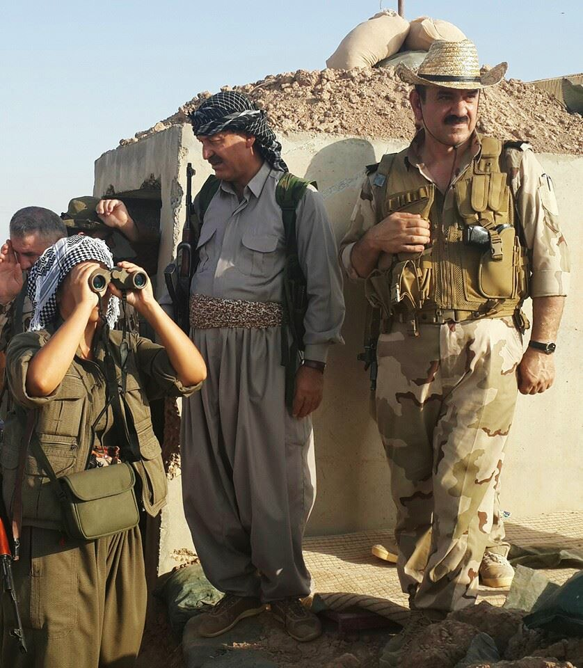 YPJ fighters embracing